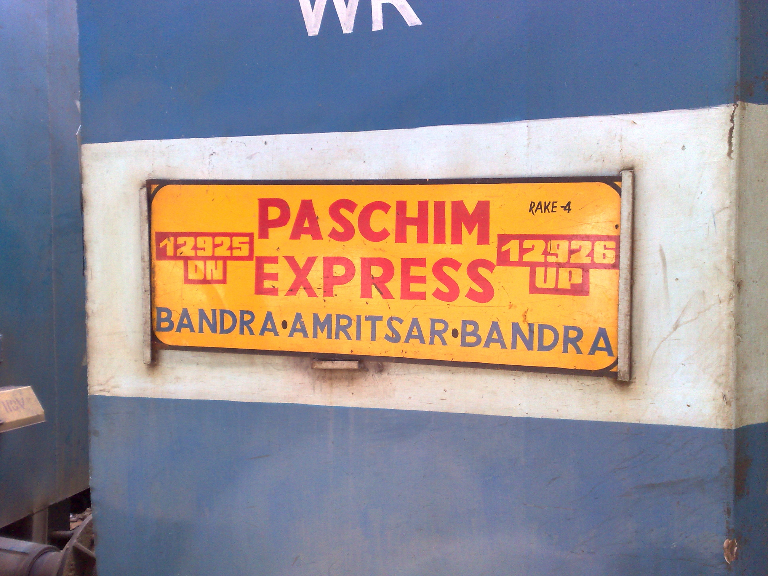 12925 Paschim Express